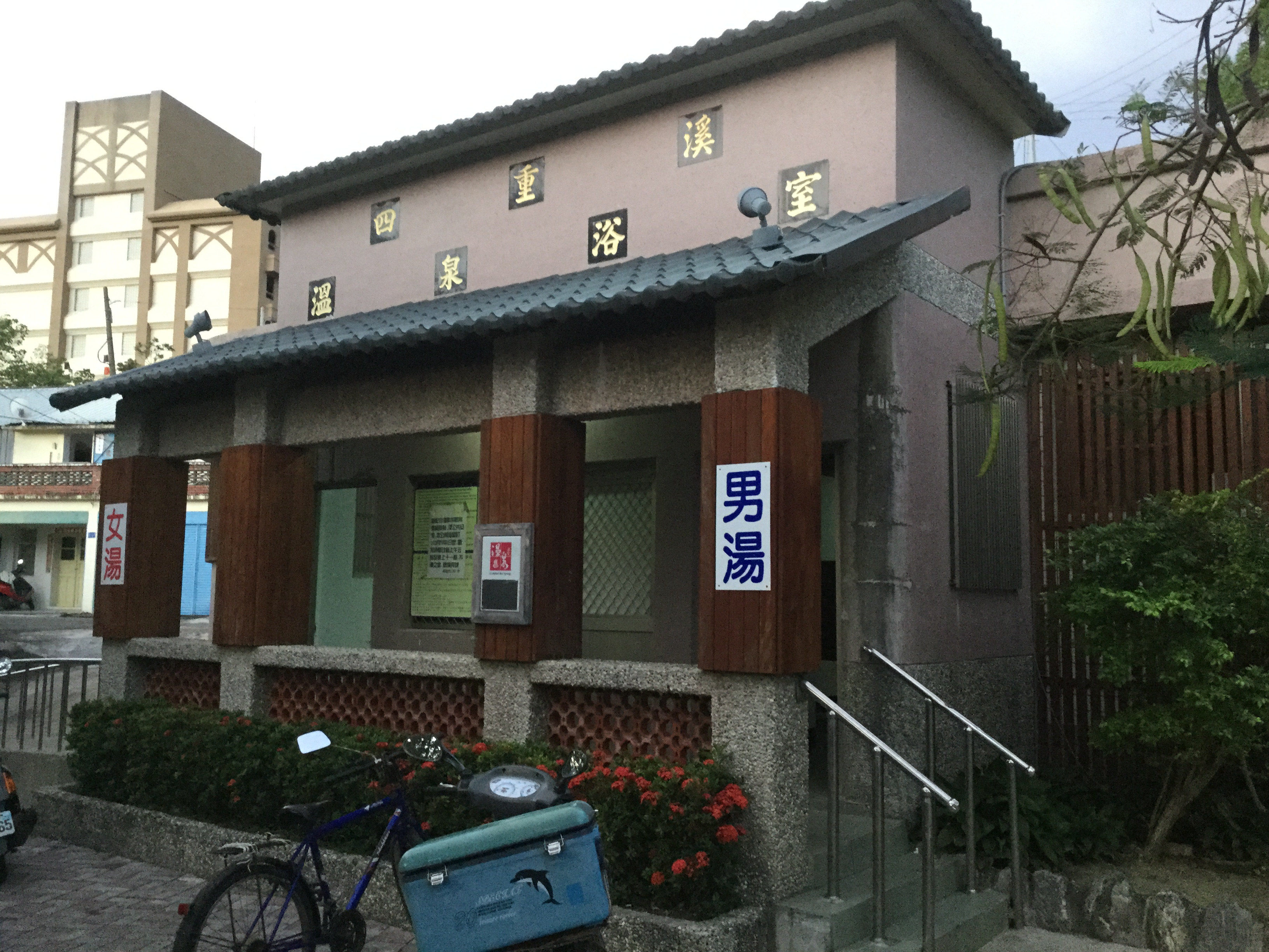 Pubulic Bath in Sichongxi Hot Spring